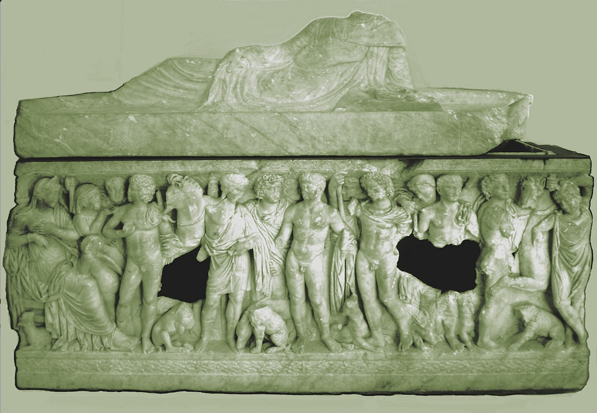 Sarcophagus of Phèdre and Hippolyte